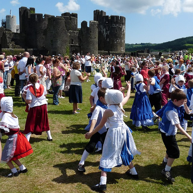 Day of Dance, Caerphilly This was an event where primary schoolchildren from around the Borough of Caerphilly met and paraded through the town before dancing together on the hornwork at Caerphilly Castle.